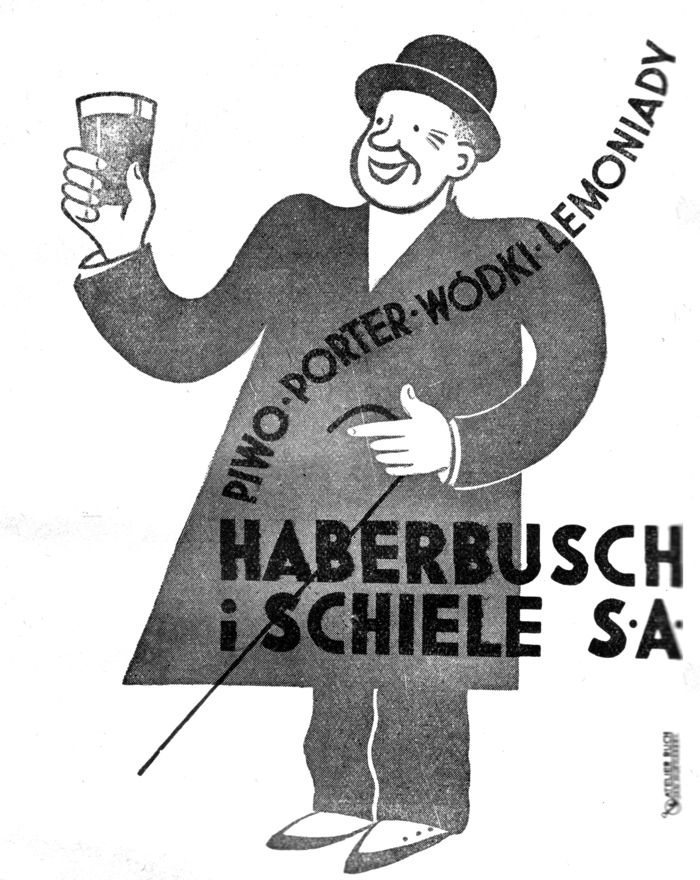 Advertisement of the Haberbusch and Schiele Company (manufacturer of beer, vodka, and other alcoholic beverages)